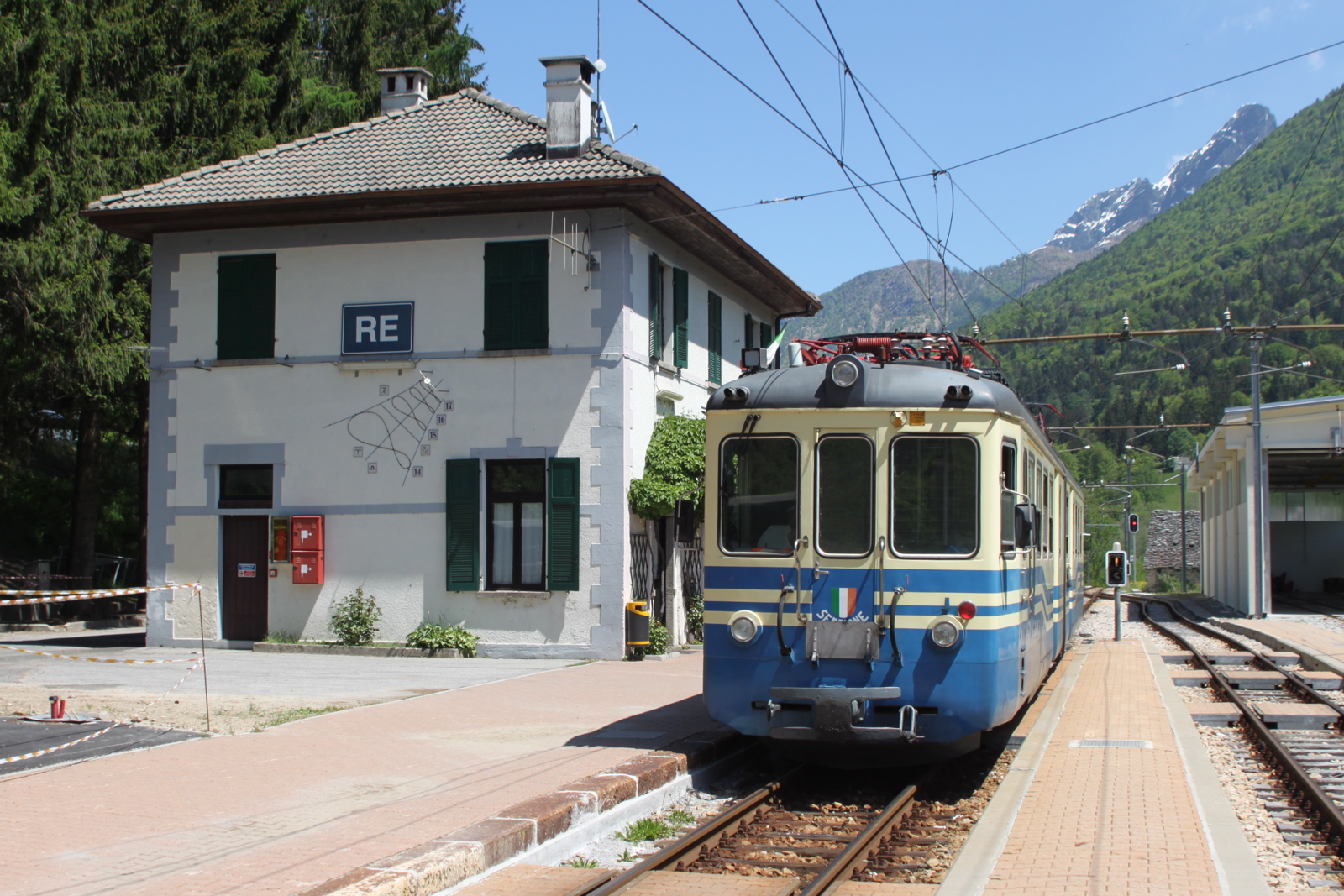 SSIF's ABe 6/6 33 at Re (Italy).